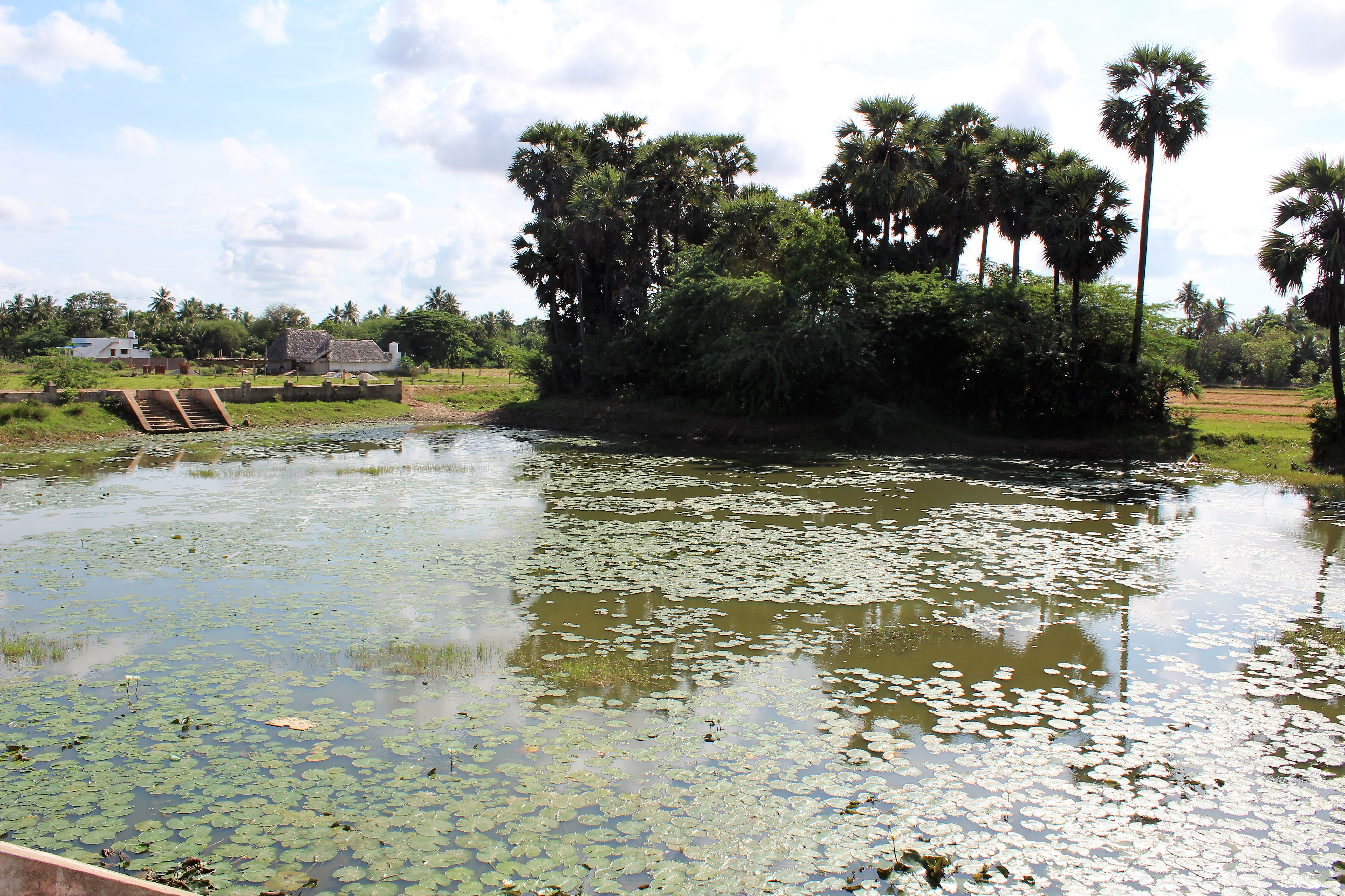 Nanmathiya Perumal temple, Thalachangadu